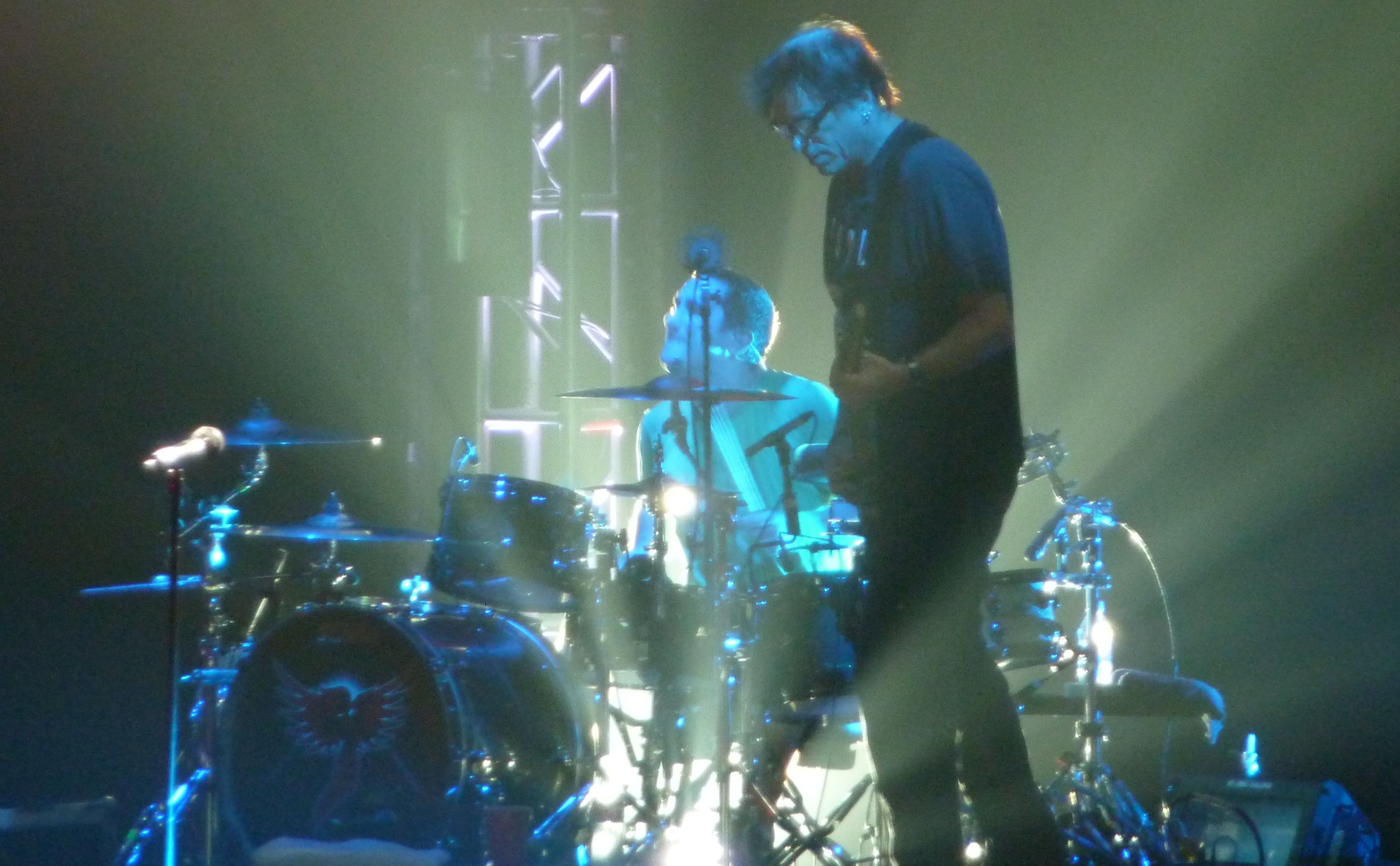 Noodles and Pete Parada in England - August 25, 2009.